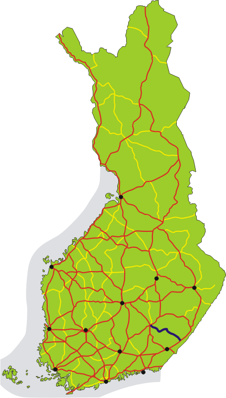 Map of the main road 62 in Finland, shown in dark blue. The other 1st class main roads (numbers 1–29) are red, 2nd class main roads (numbers 40–98) yellow. Black dots show the 12 biggest urban areas.